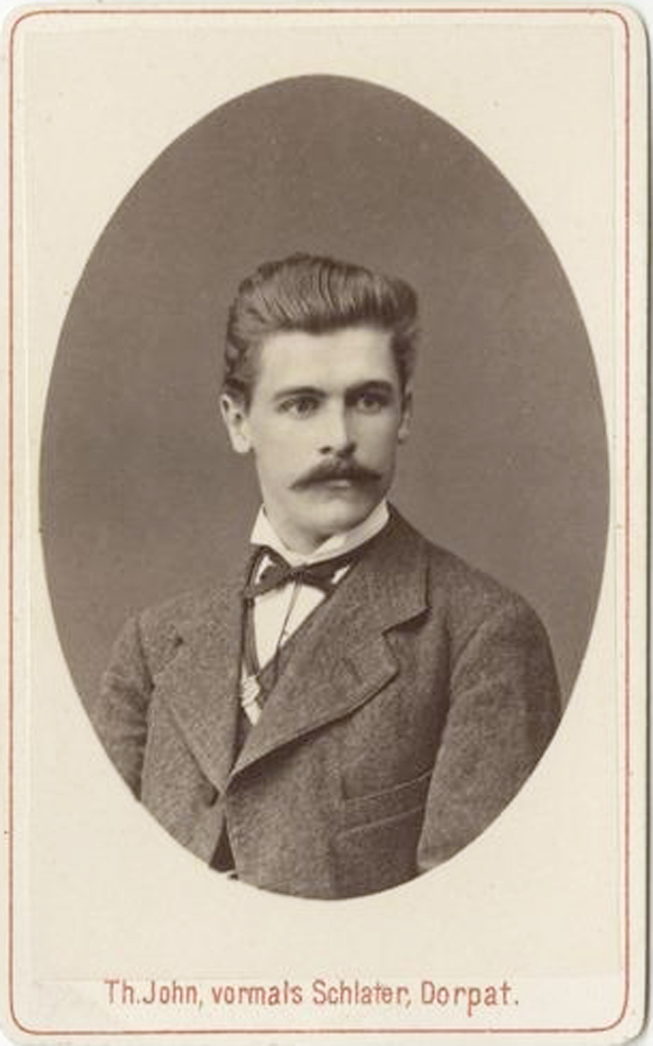 Serck Julius Christian MD